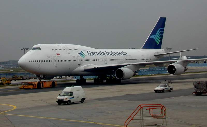 Garuda Indonesia Boeing 747-400 in Frankfurt International Airport